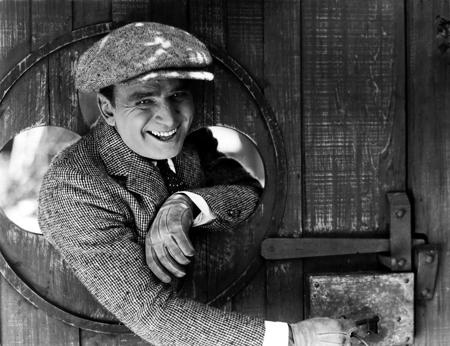 Douglas Fairbanks Sr. in the film His Majesty, the American (1919).